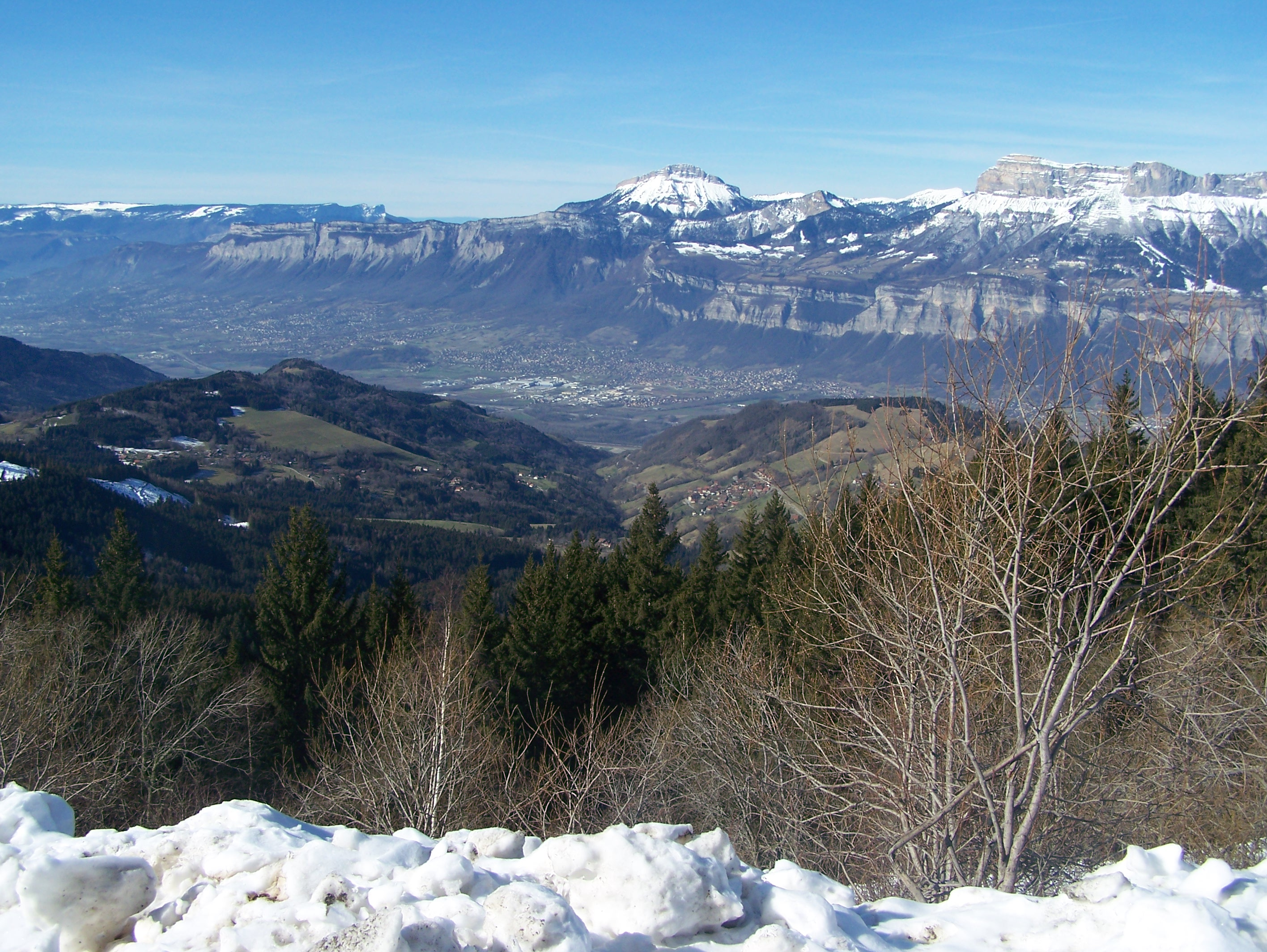 Sight of the vallée du Grésivaudan valley (towards Grenoble), seen from the 7 Laux ski resort in Isère (French Alps).